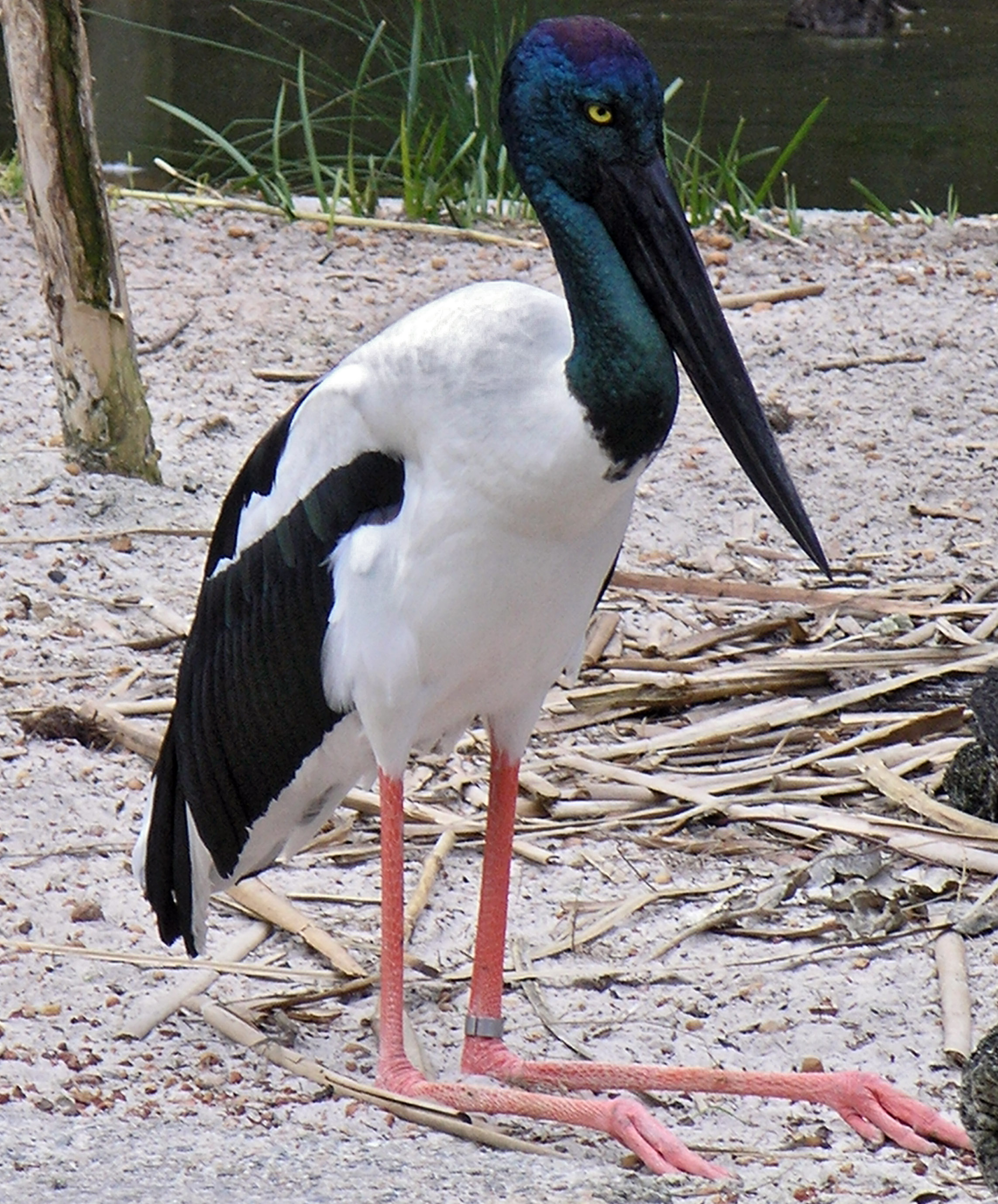 Ephippiorhynchus asiaticus Jabiru taken in Perth Zoo, September 2005